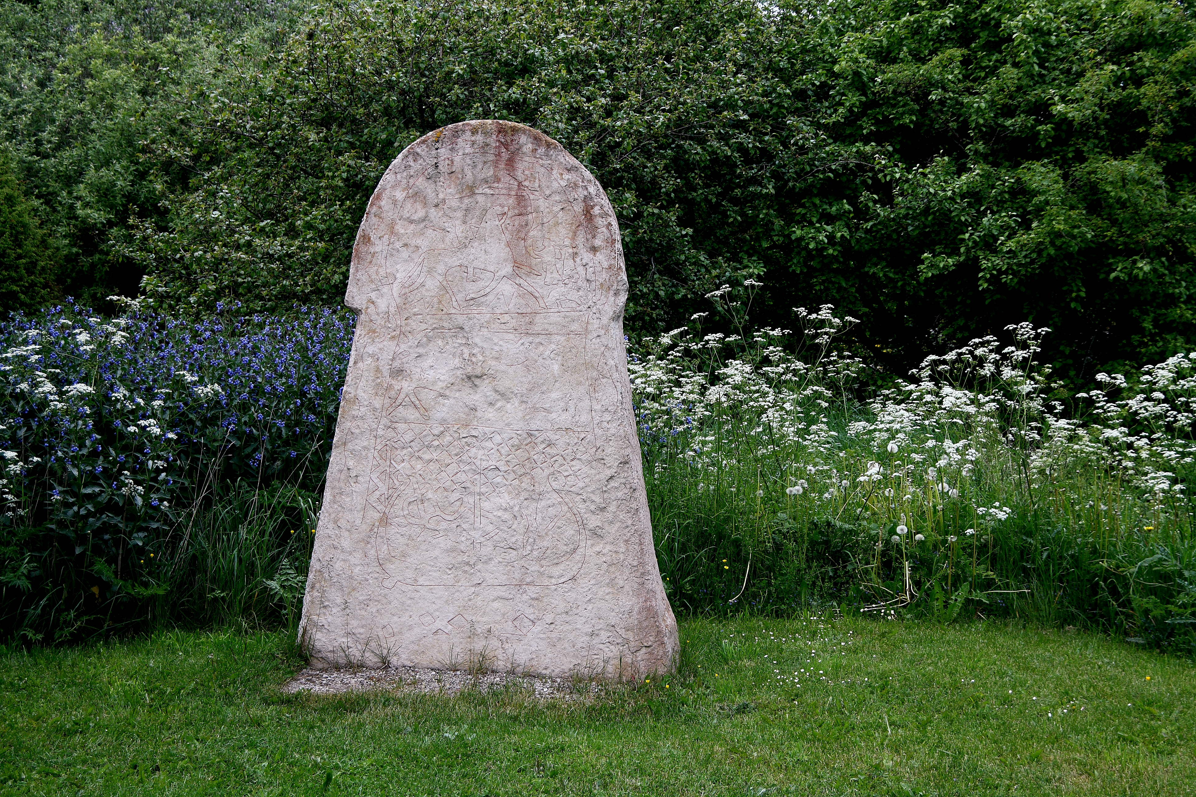 The picture stone of Stenbro at Gotland.